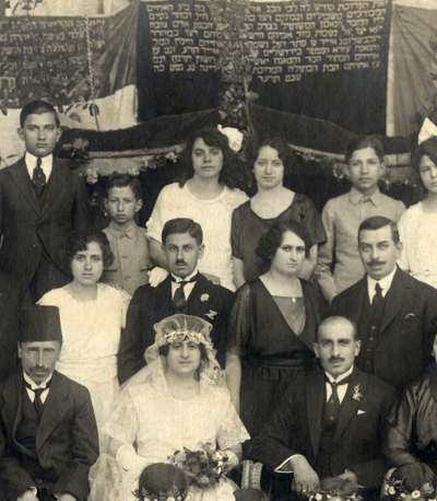 Photograph of Jewish wedding party in Aleppo, in 1914 by the Armenian photographer Derounian. Men, women, and children, are all dressed in European fashion, except for one Fez wearing family member. Dr Alex Russell, M.D. attended many weddings in Aleppo in the 18th. century during his long residence there , and made the following observation during a Jewish wedding, " The bride is seated in an open arm-chair, in the middle of the open Divan, or Alcove, with three enormous painted wax tapers burning before her. She is covered with a red gauze veil, through which her face and dress are plainly enough discernable. She is richly dressed in Venetian silks, and besides the usual jewels of gold, she is adorned with precious stones, and a profusion of pearls. " THE NATURAL HISTORY OF ALEPPO 1794 LONDON.